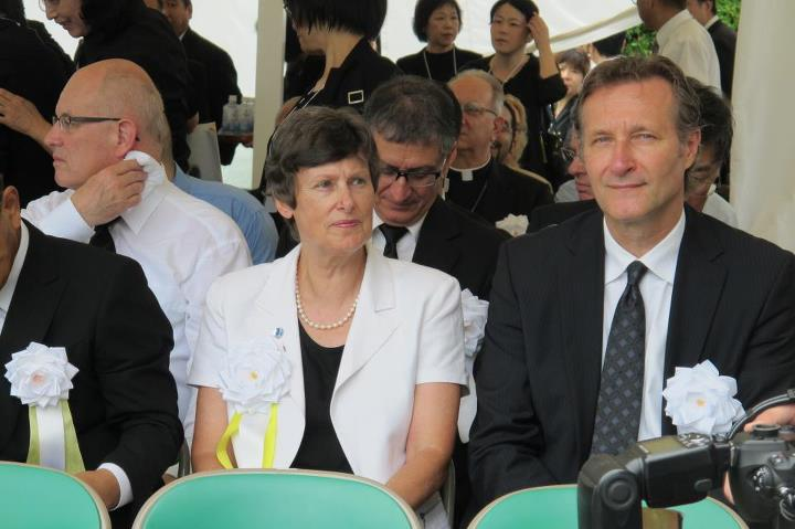 UN Head of Disarmament Affairs Angela Kane and CTBTO Head Tibor Tóth attend Nagasaki's Peace Memorial Ceremony. Photo by CTBTO